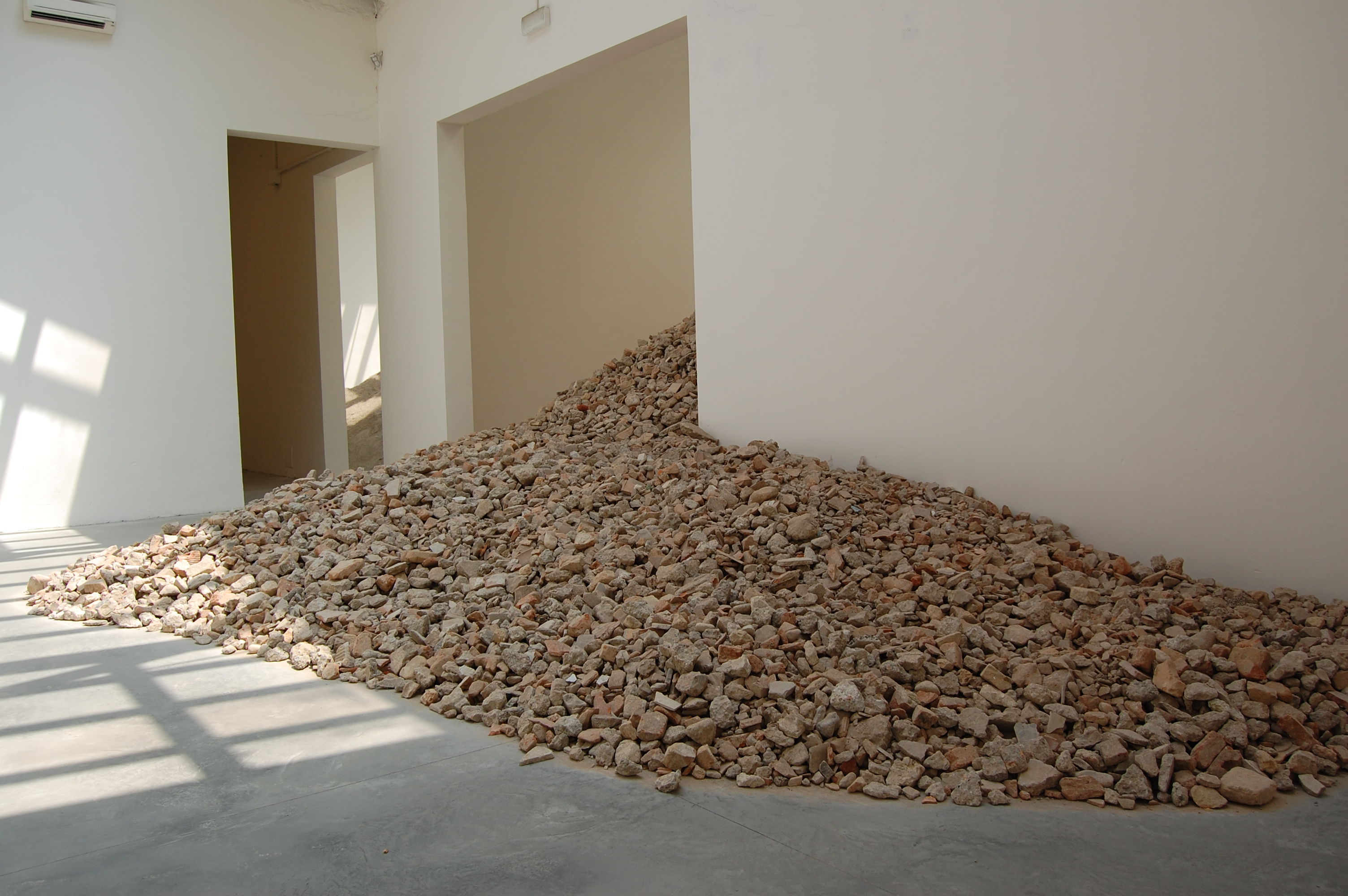 Lara Almarcegui, Venice Biennale 2013